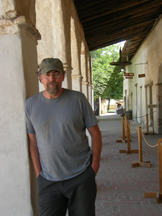 Photo of Ken Westerfield taken in California.